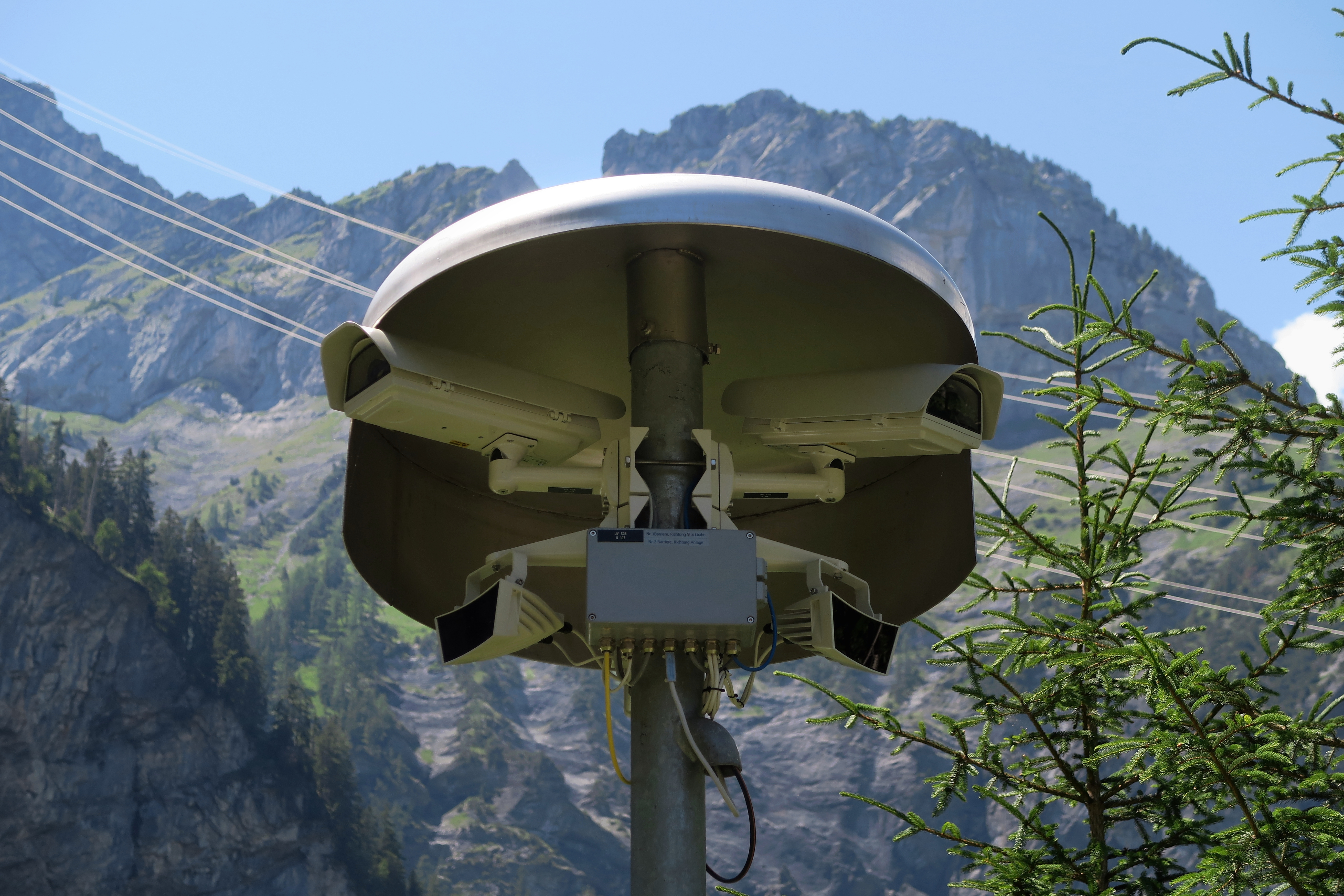 Monitoring over a wide area at the access to a large bunker. Switzerland, July 1, 2015.